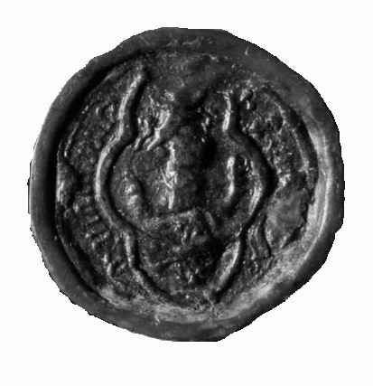 Pečeť Chvala z Machovic